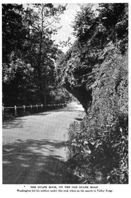 Photograph of "Hanging Rock" or "Gulph Rock" in Gulph Mills, Pennsylvania circa 1917. Reportedly George Washington marched his men under this rock on his way to winter quarters at Valley Forge, PA.